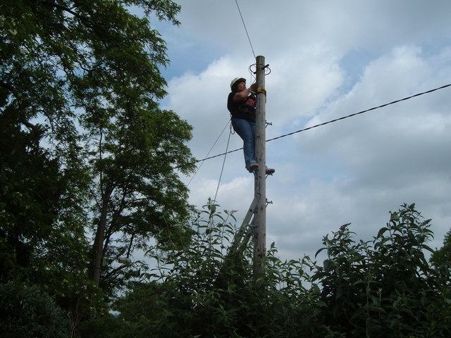 Lady pole climbing Telephone Engineer Just to prove ladies have equal job rights, here is a pole climbing lady Telephone engineer providing a new line to the farm units, roadside by 'The Green.'